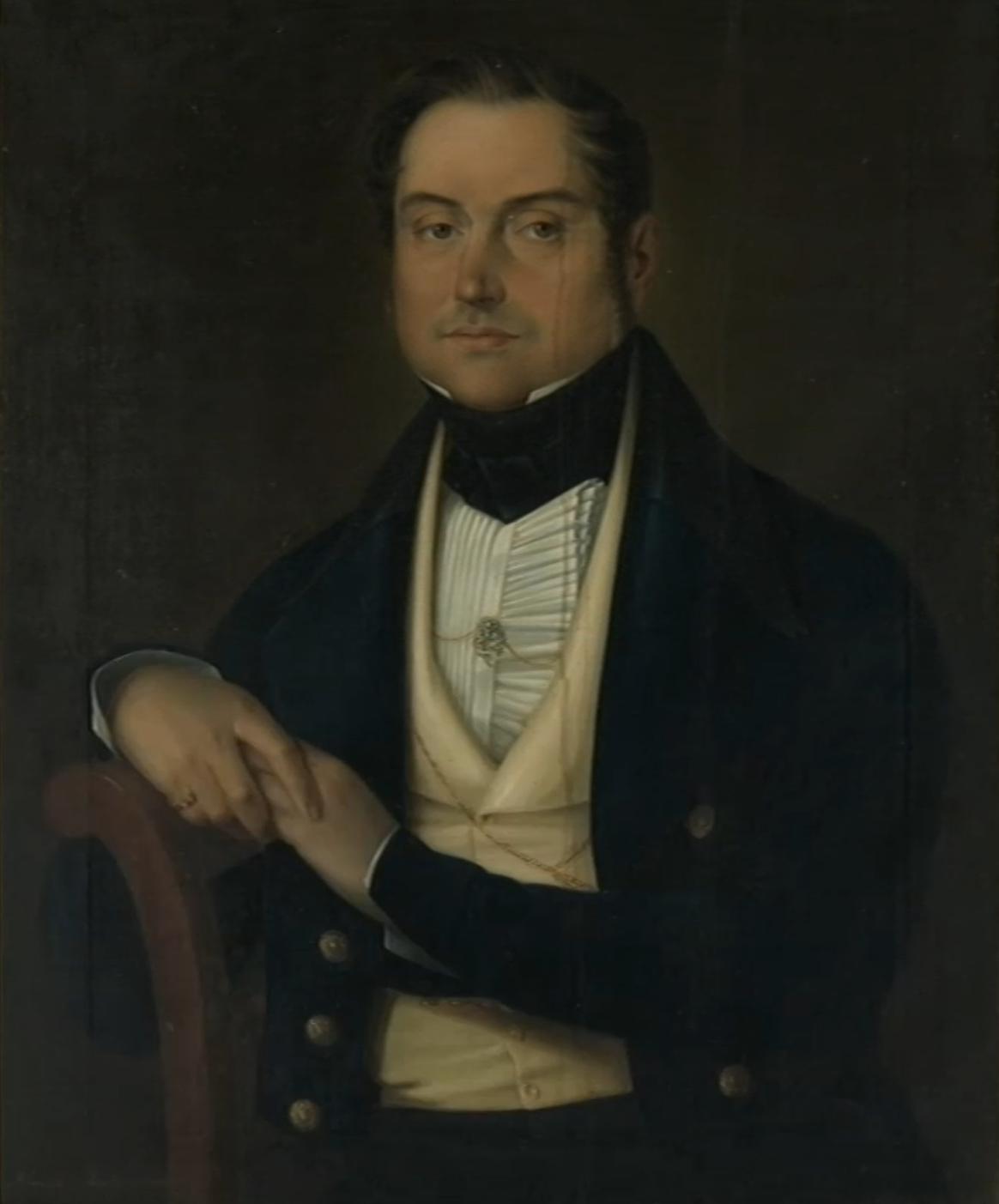 Portrait painting of Manuel Freitas do Amaral (1797-1856), owner of Casa de Sezim.